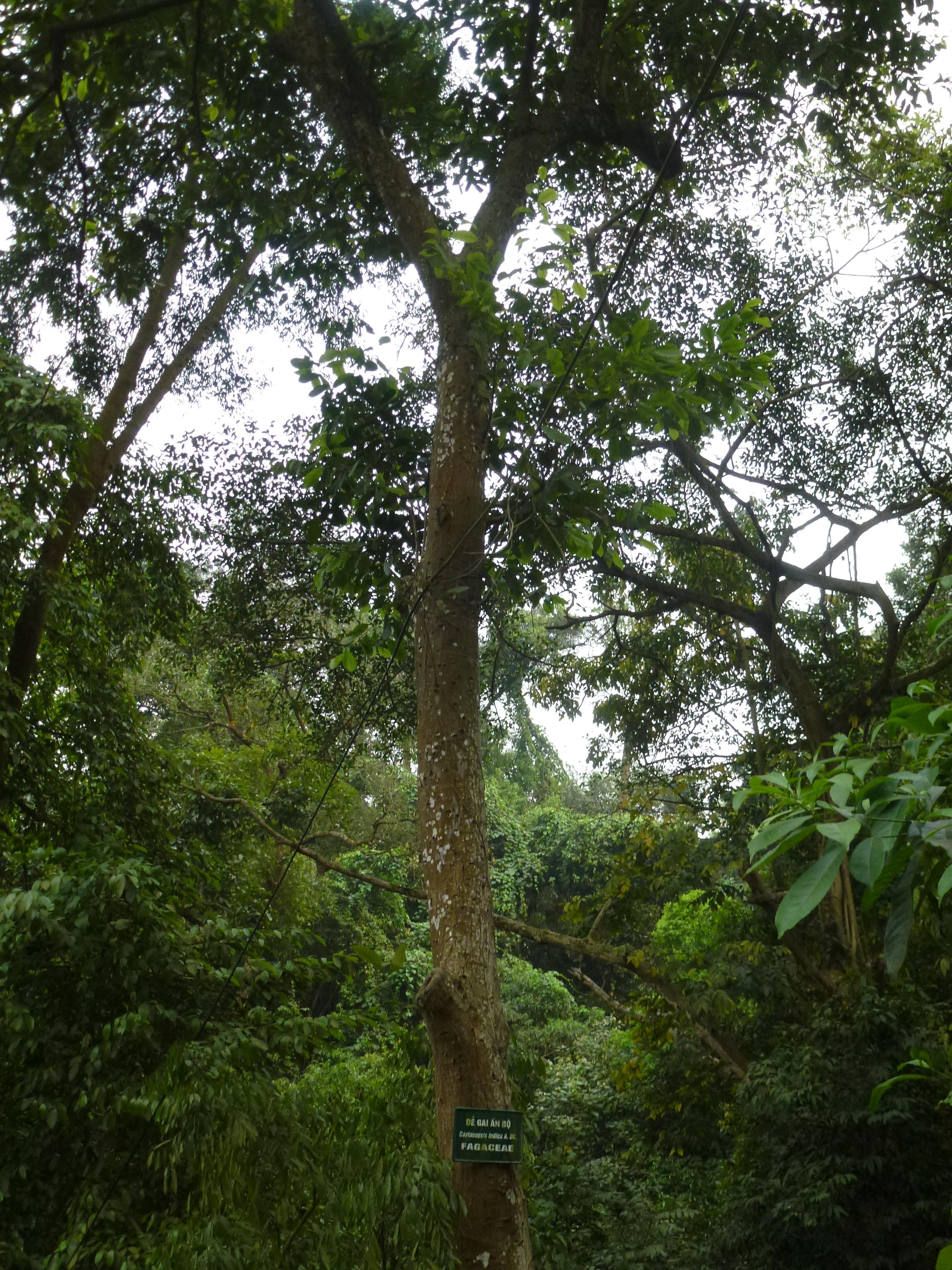 Castanopsis indica at Hùng temple, Vietnam